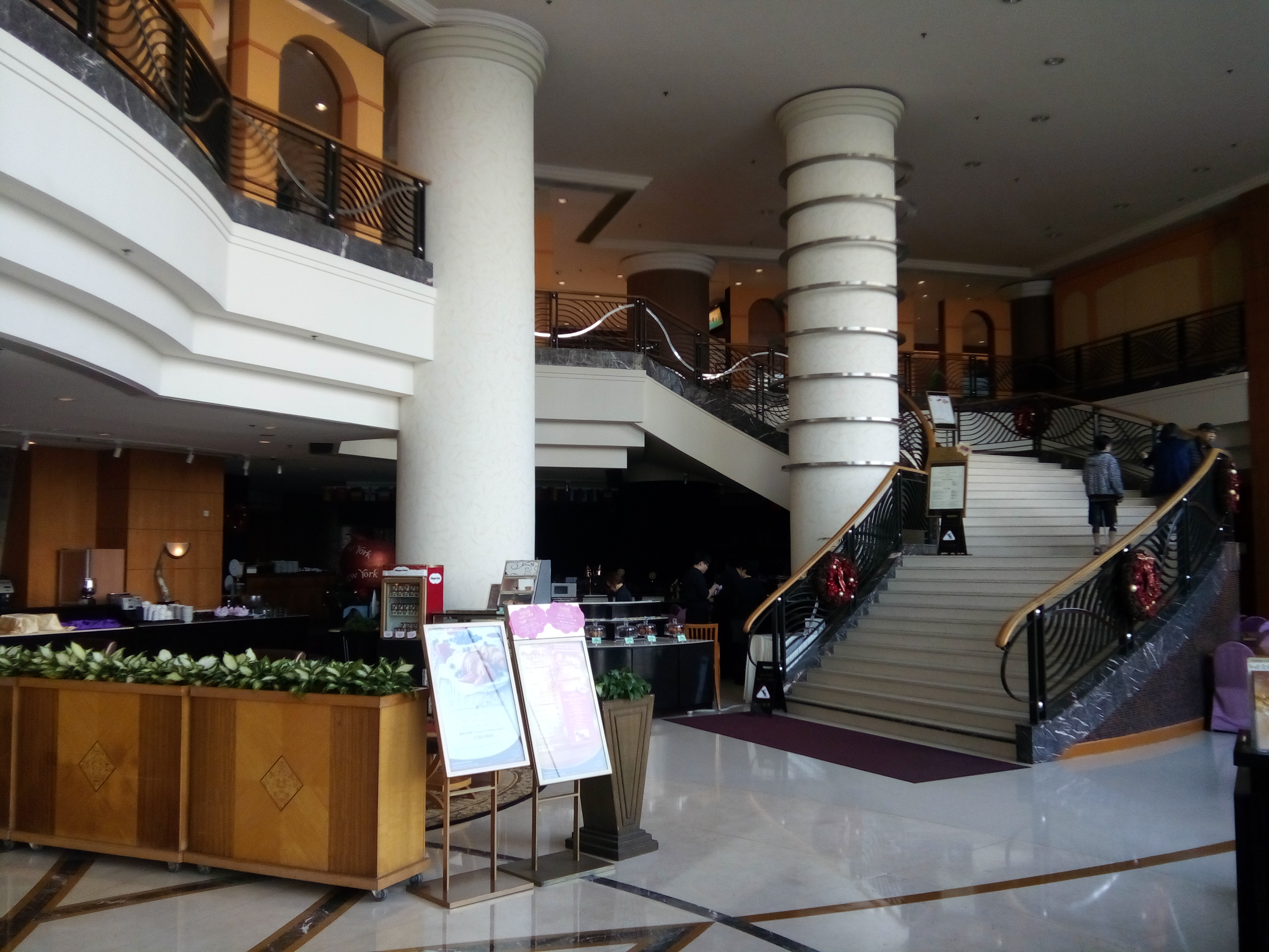 HK TSW 天水圍 Tin Shui Wai 天恩路 Tin Yan Road 嘉湖海逸酒店 Harbour Plaza Resort City hotel interior in Dec 2016